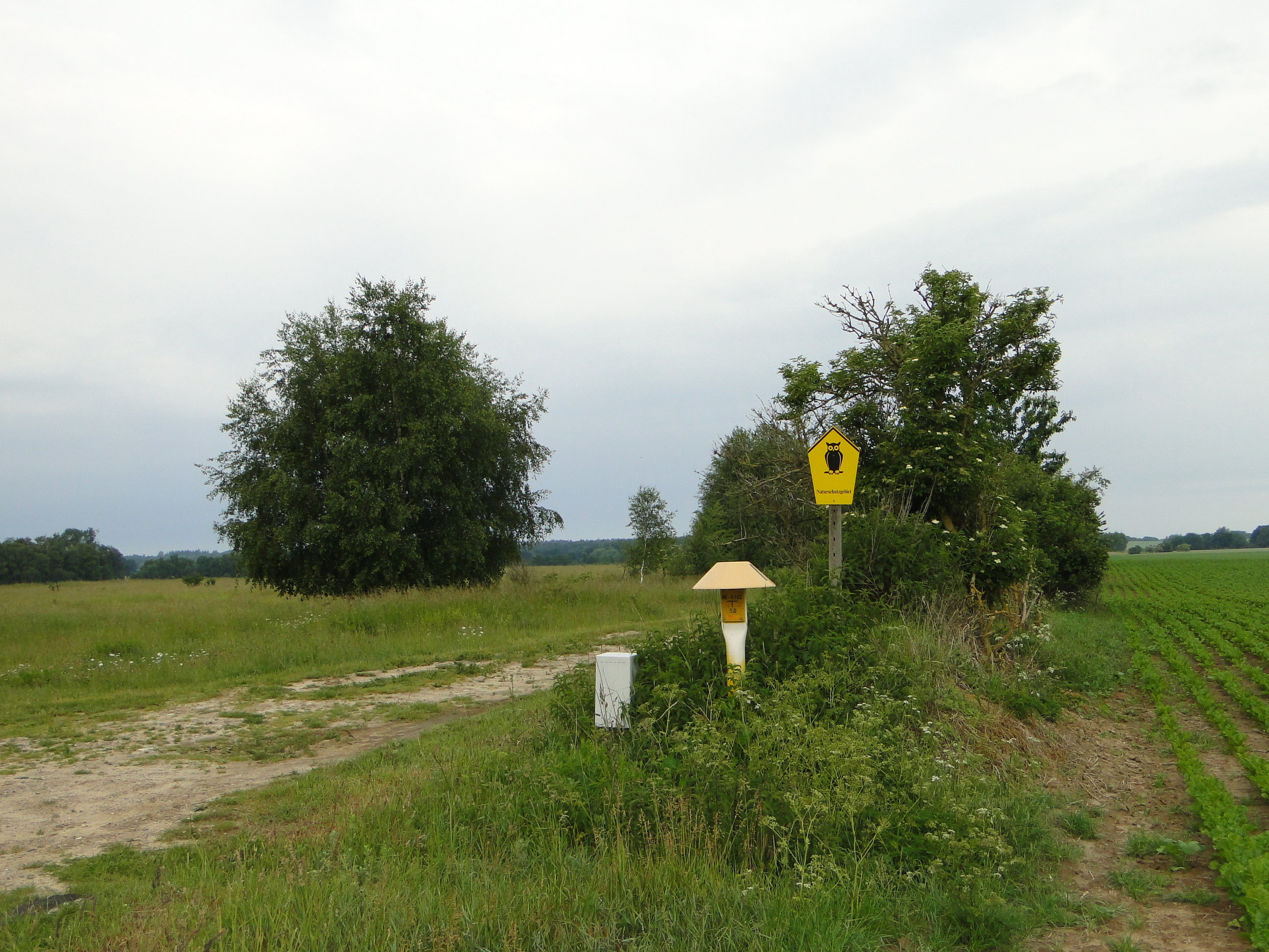 Former inner german border between the Dechow in Mecklenburg-Vorpommern (right) and Mustin in Schleswig-Holstein (left), part of nature reserve Lankower See